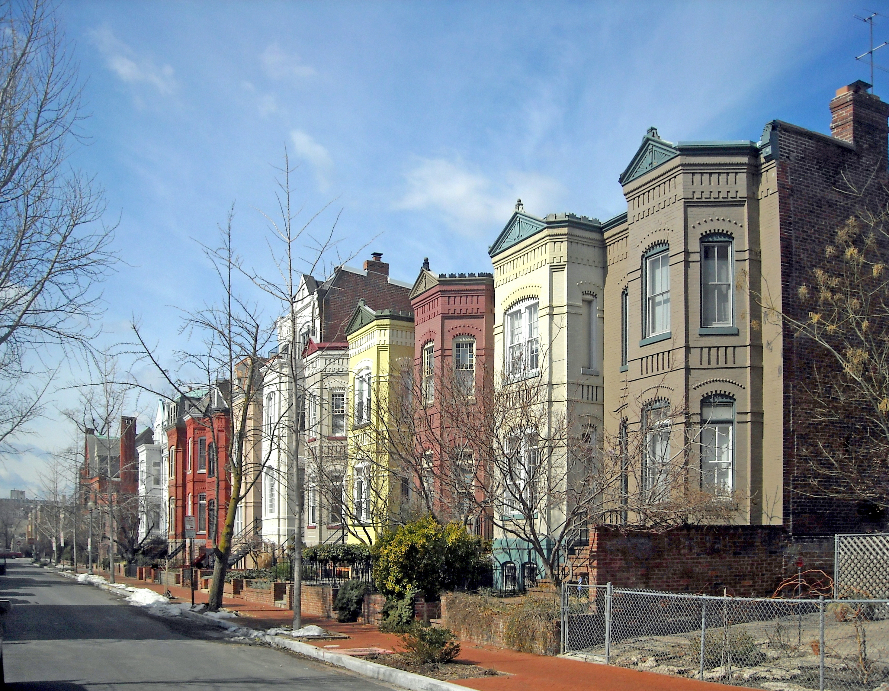 Row houses located at 1507–1529 Corcoran Street, N.W., in the Logan Circle neighborhood of Washington, D.C. Built around 1875, the homes are designated as contributing properties to the Greater Fourteenth Street Historic District, listed on the National Register of Historic Places in 1994.